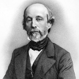 French politician and historian Alfred de Falloux (1811-1886)